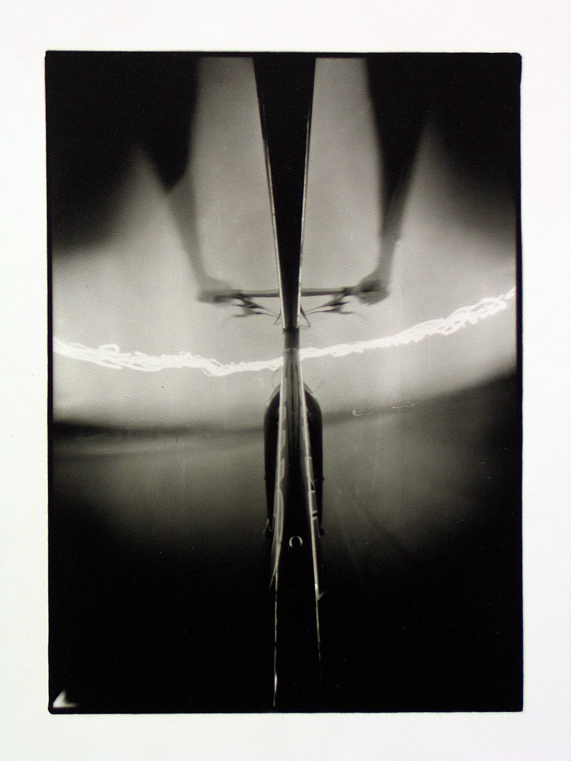 Tomasz Dobiszewski, Pinocykl, 2003